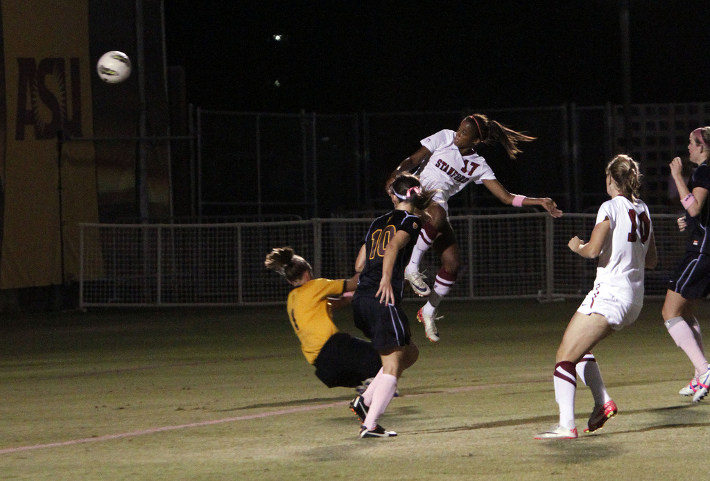 Stanford's Lindsay Taylor (17) heads the ball past Arizona State goalkeeper Alyssa Gillmore for Stanford's first goal in a 3-1 win over the Sun Devils, Friday, October 14, 2011, in Tempe, Arizona.